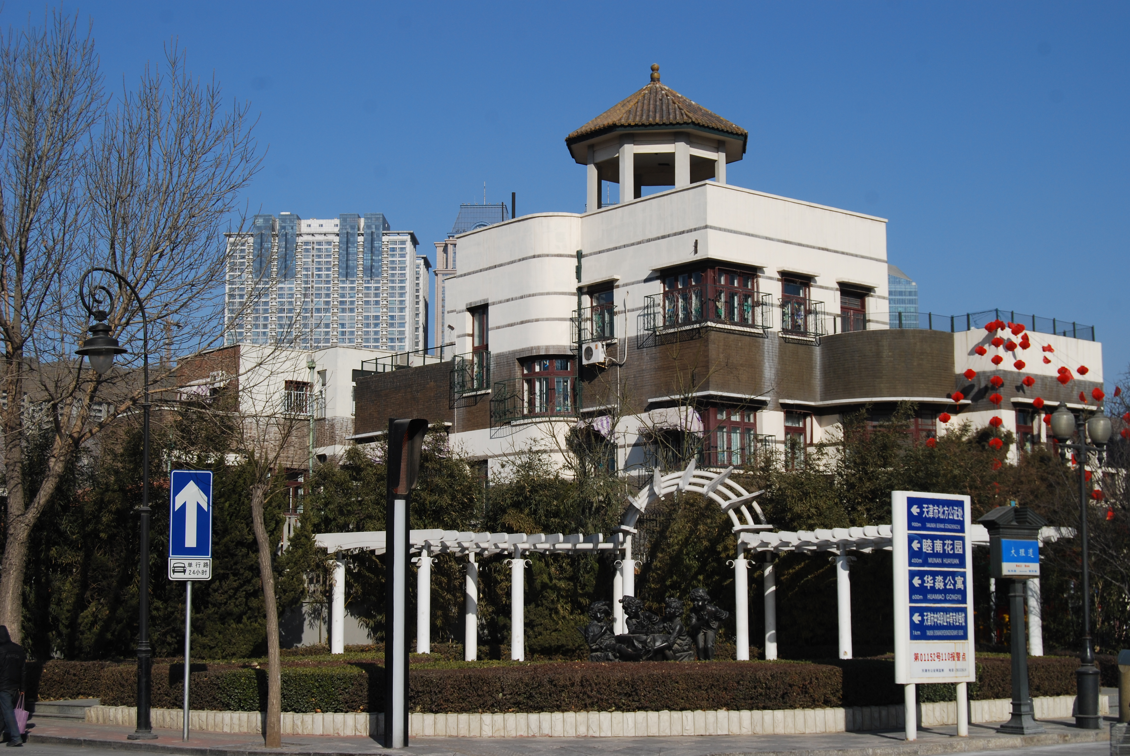 The Former Residence of Chen GuangYuan (陈光远, 1873–1939) in Dali Dao No. 48, Heping District, Tianjin